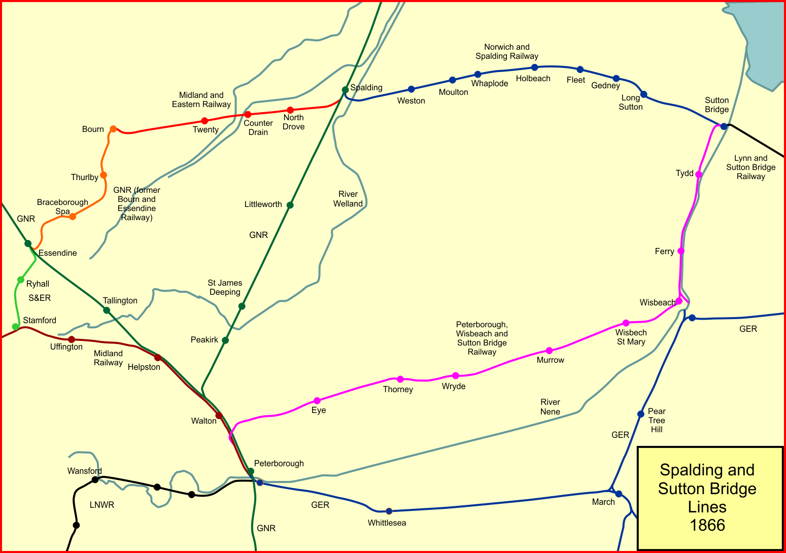 Railway lines near Spalding and Sutton Bridge, England, in 1866